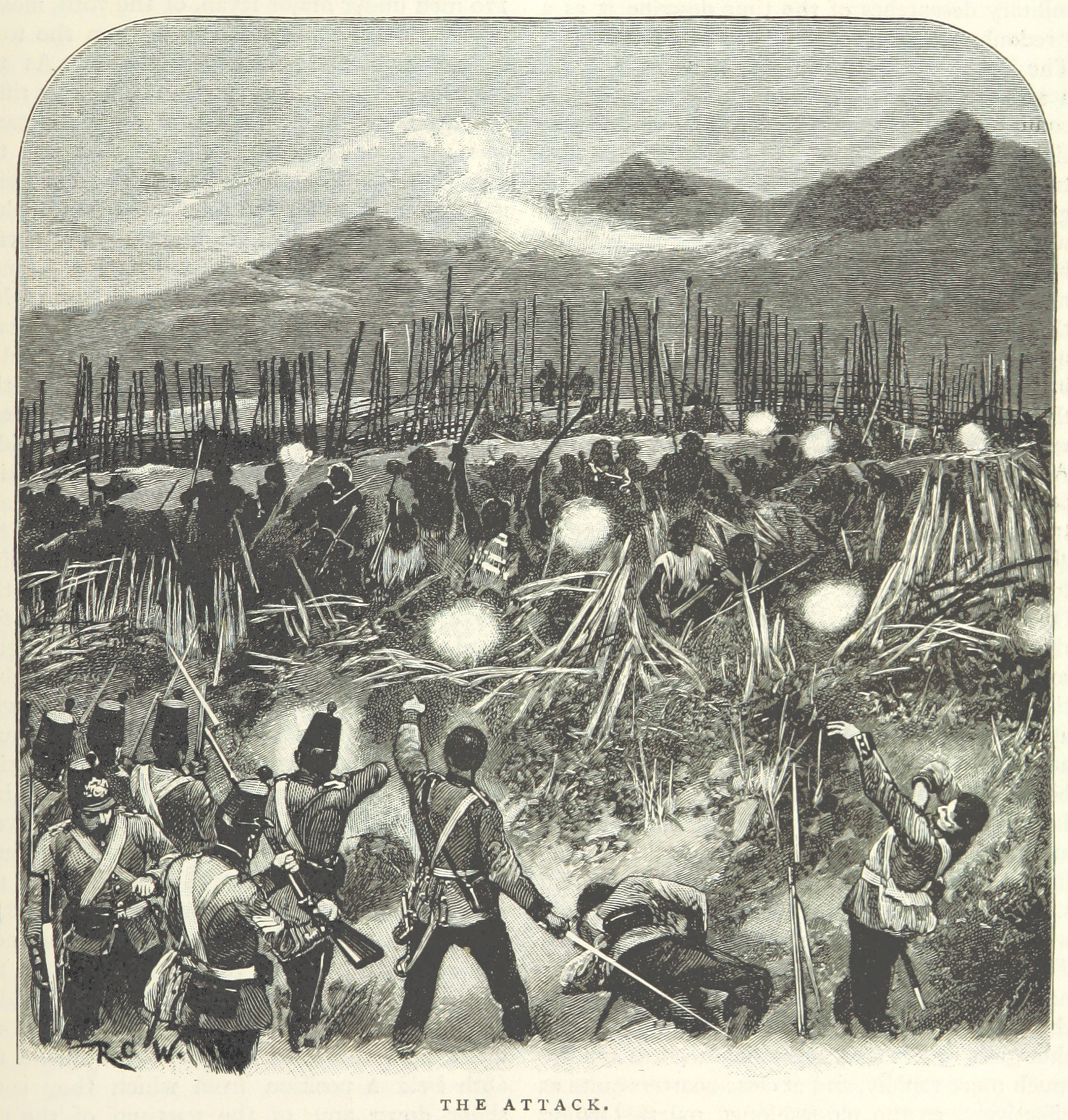 Maori and English troops clash at the 1864 Battle of Gate Pa.